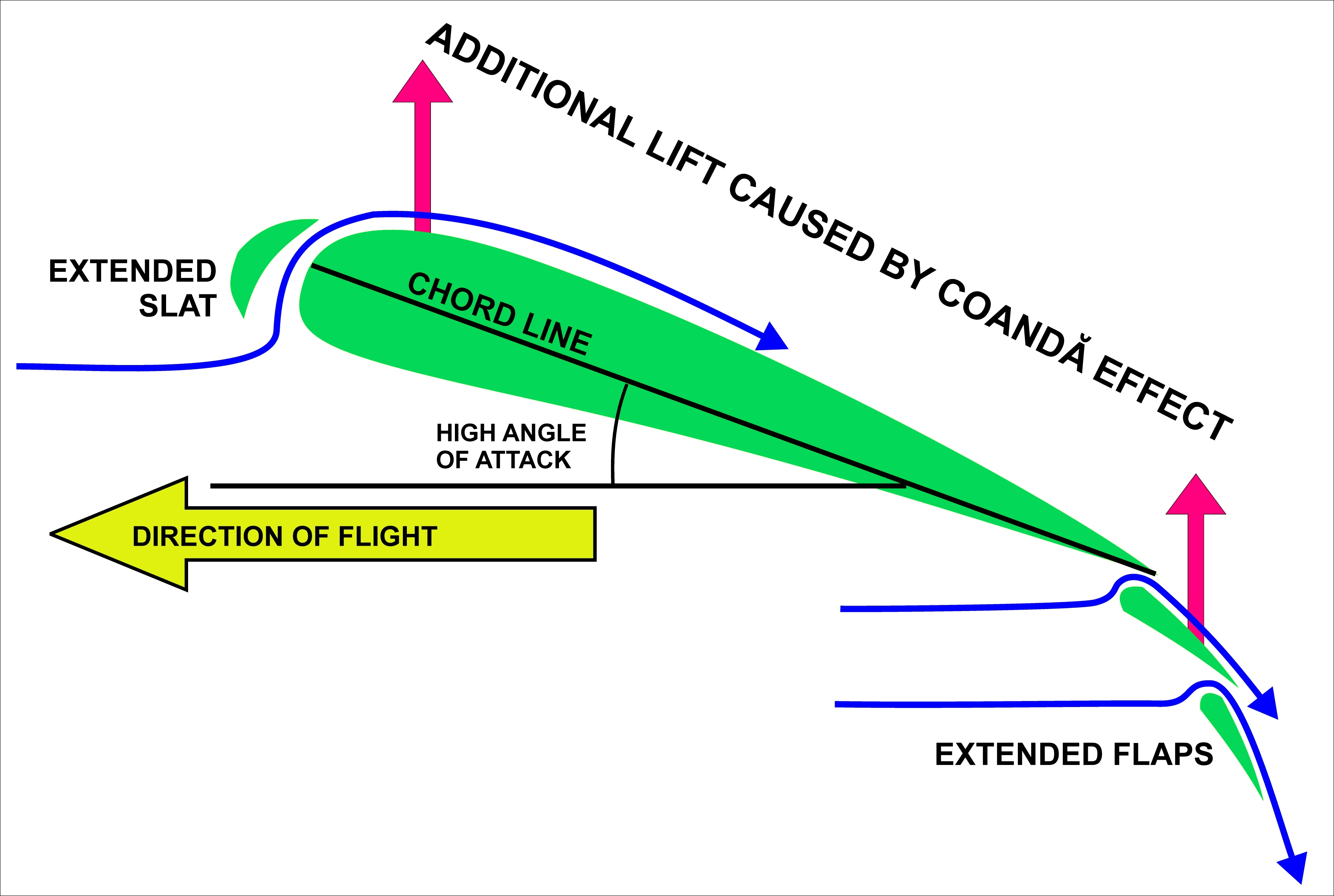 A diagram of the use of slats and flaps to increase lift on an airfloil on a slow flying aircraft. The extra lift is caused by the Coanda effect as the air is diverted through the openings caused by the extended slats and flaps. This is not an engineering drawing, but a somewhat exaggerated diagram to emphasize the major points.